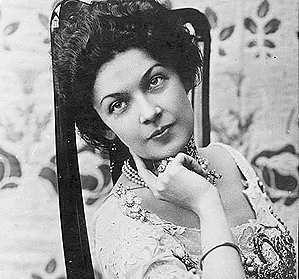 Russian singer Anastasiya Vyaltseva (1871-1913)